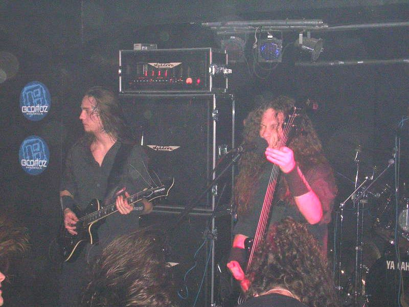 Dies Irae band, 2.02.2005, Wrocław, "Diabolique", The Ultimate Domination Tour 2005